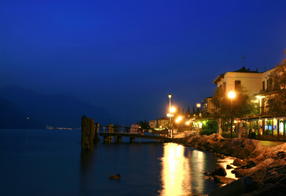 Brenzone at night